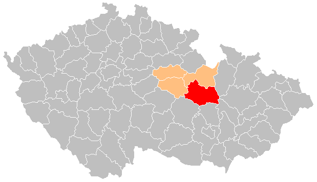 Svitavy District within Pardubice Region. Current borders of districts since January 1, 2007.